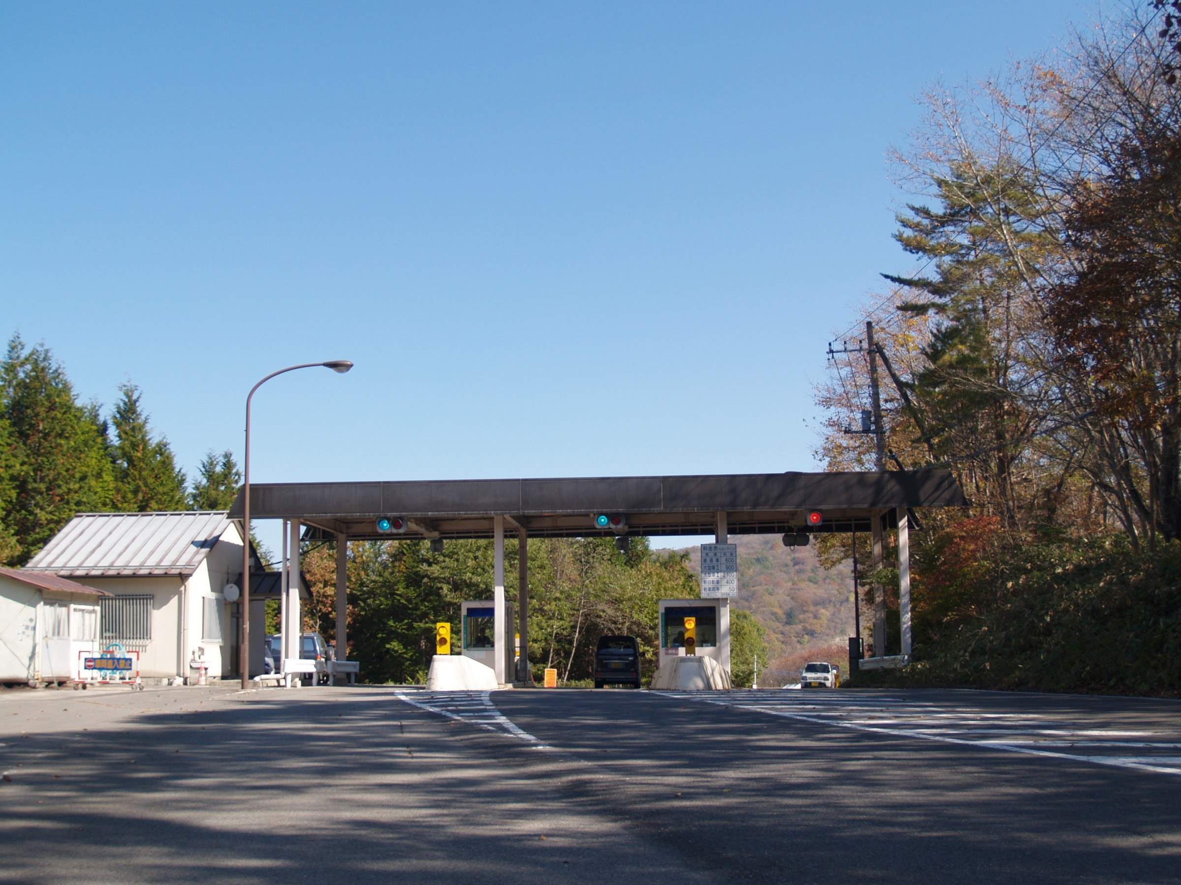 Shiobara Toll Gate on the Nichien Toll Road Momiji Line (part of the Tochigi Prefectural Road Route 19)